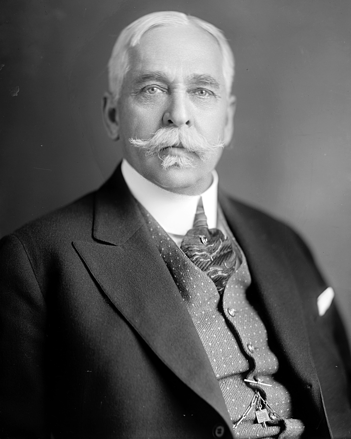 James Luther Slayden, US Representative from Texas